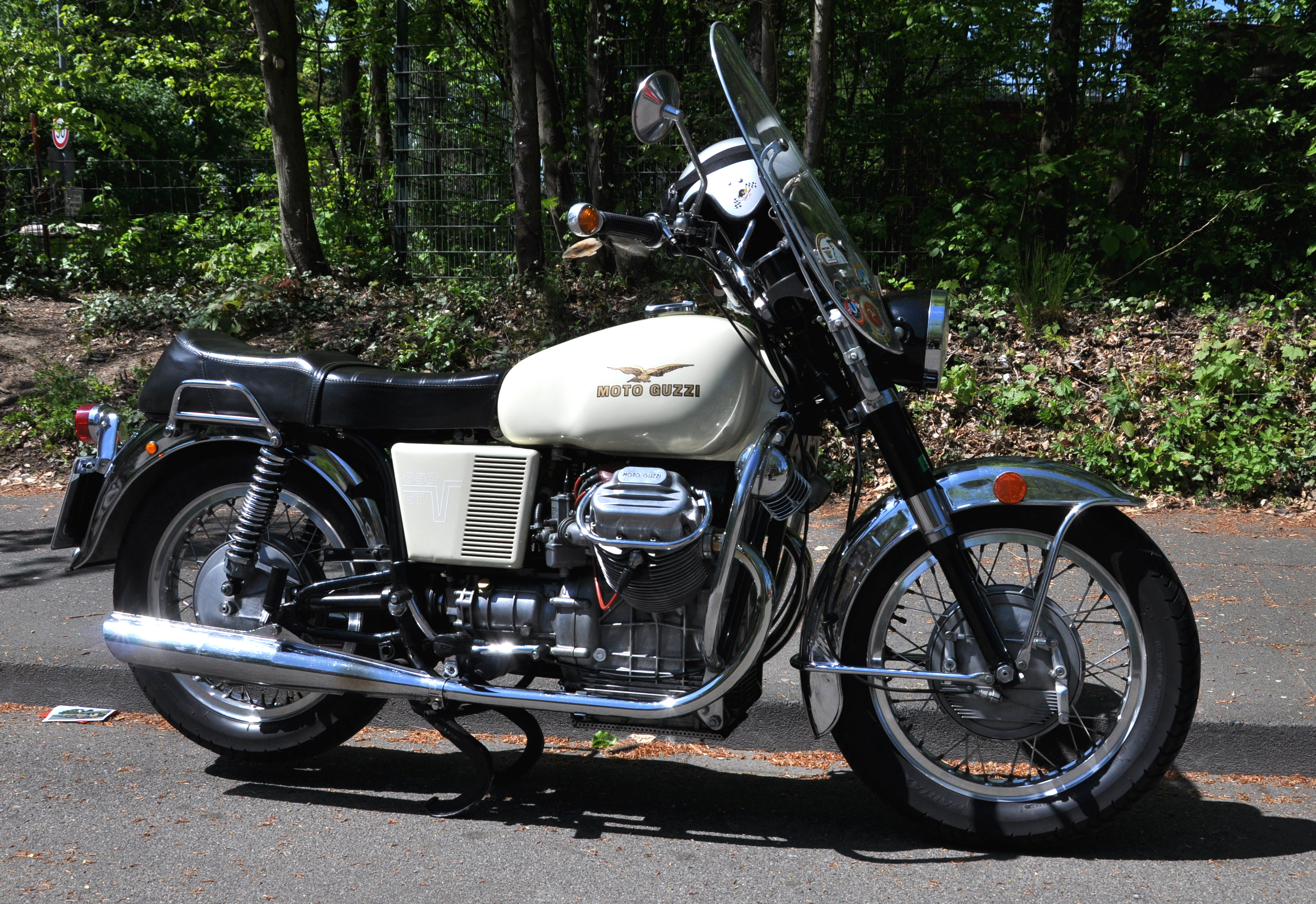 Cars and impressions at 3. Festival der Oldies in Liblar, 05. Mai 2013; Moto Guzzi motorcycle